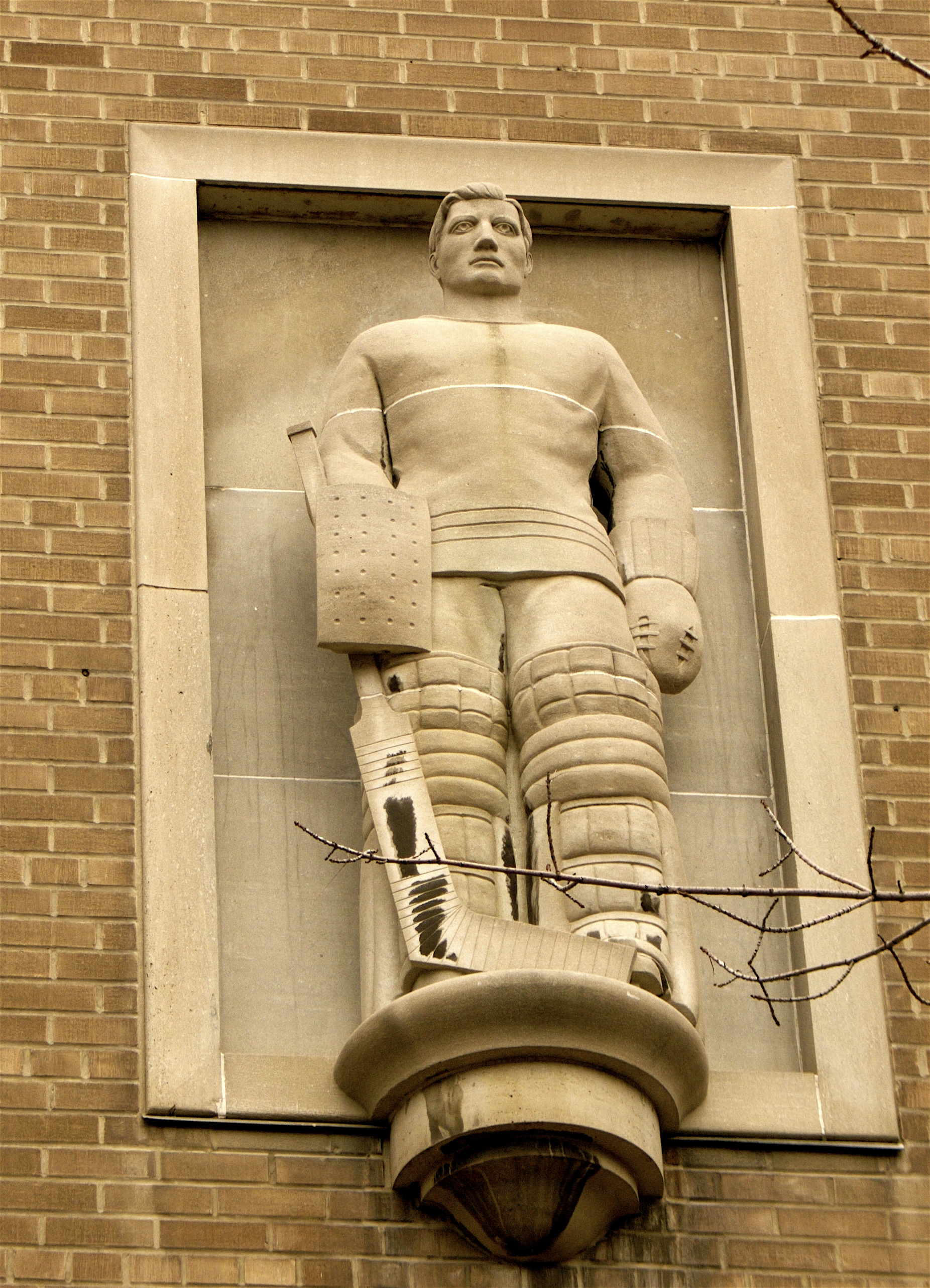 Guarding the entrance to Ryerson University